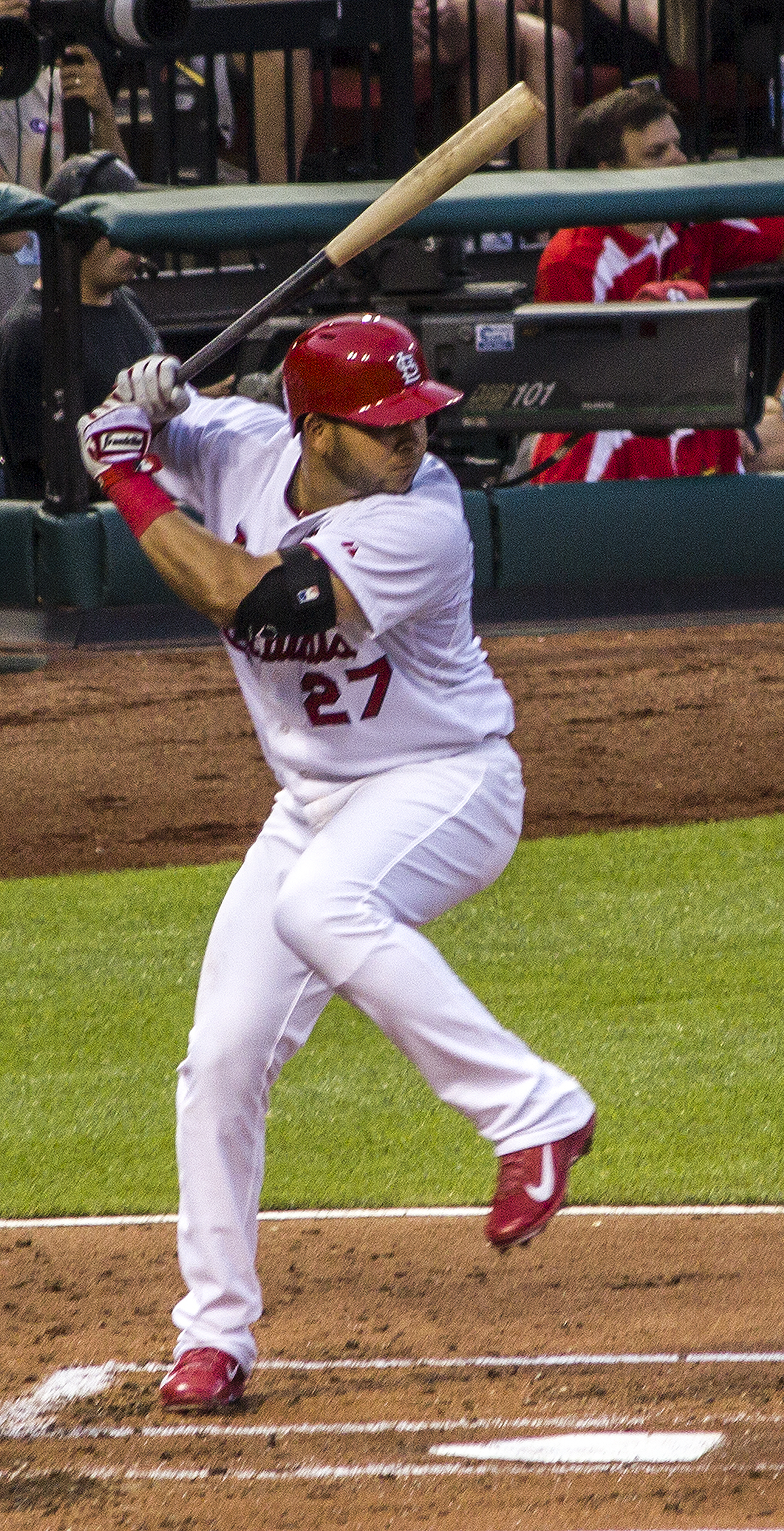 Cardinal player Jhonny Peralta 2014